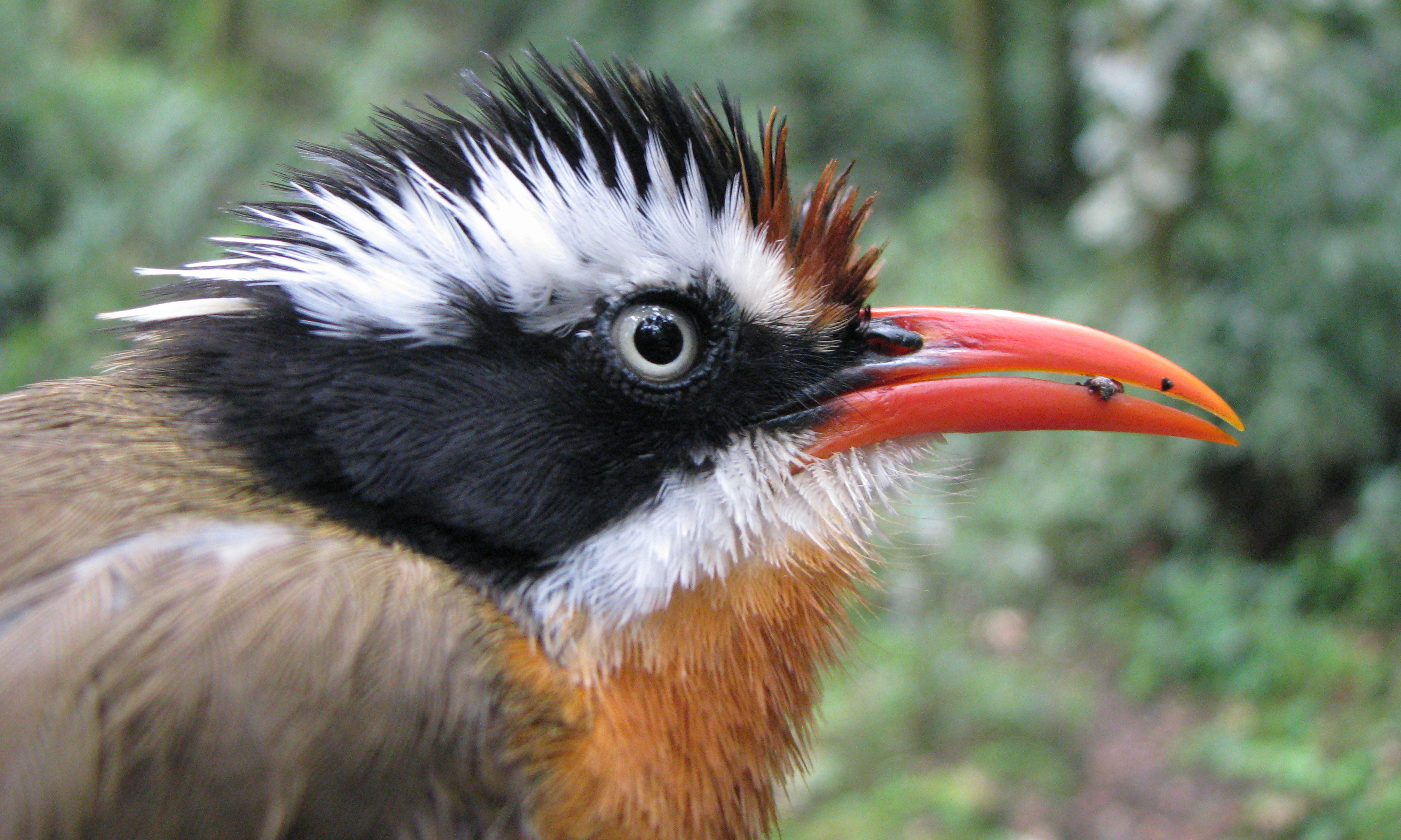 A Coral-billed Scimitar Babbler. This bird was netted and ringed in Eaglenest Wildlife Sanctuary, Arunachal Pradesh, India.